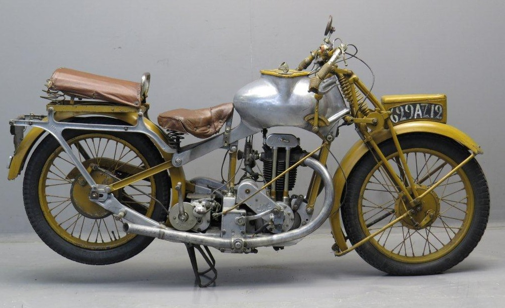 MGC motorcycle from 1930 with a JAP OHV engine